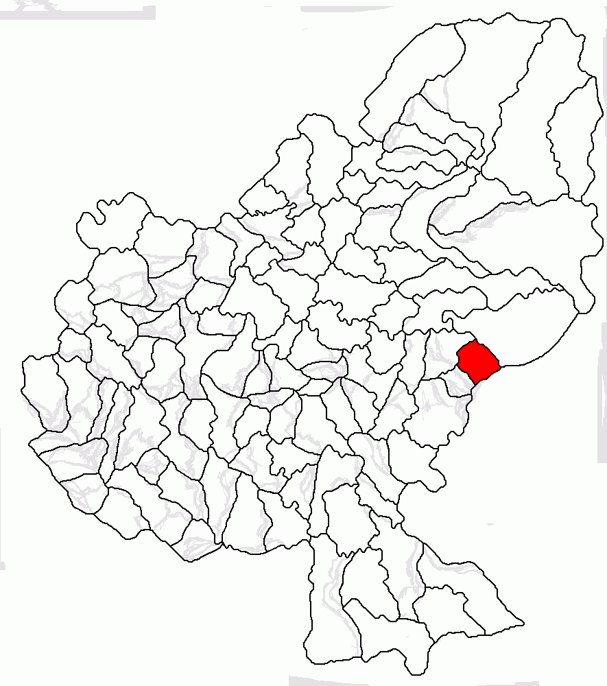 Locator map of the commune of Sărățeni, Mureș County Romania